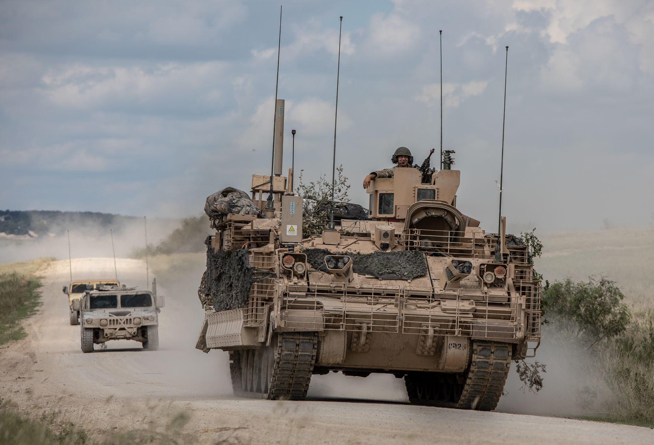 Soldiers from 4th Squadron, 9th U.S. Cavalry Regiment "Dark Horse," 2nd Armored Brigade Combat Team, 1st Cavalry Division, are escorted by observer controllers from the U.S. Army Operational Test Command after completing field testing of the Armored Multi-Purpose Vehicle (AMPV) Sept. 24.